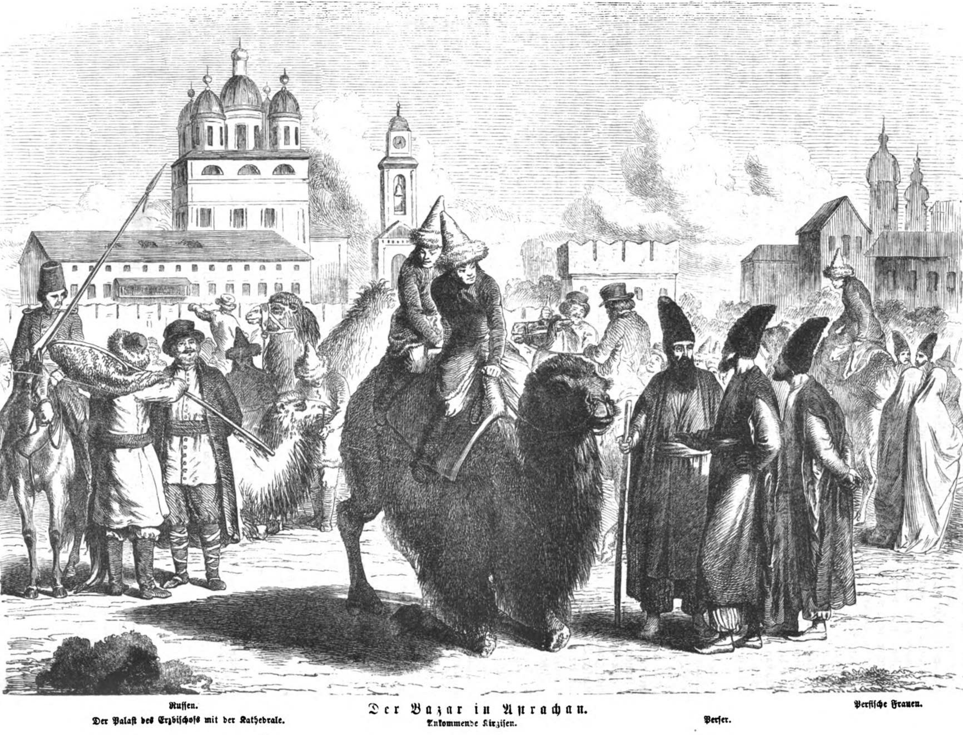 caption: "Der Basar in Astrachan. Russen. Persische Frauen. Der Palast des Erzbischofs mit der Kathedrale. Ankommende Kirgisen. Perser"